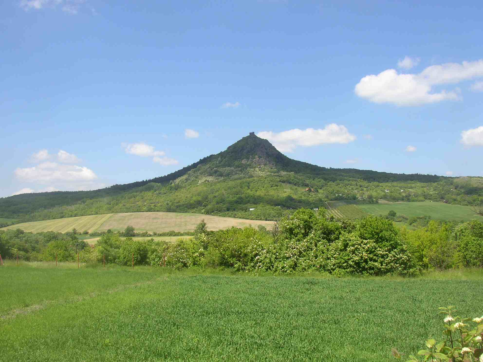 Košťál (also Košťálov) hill with ruin of Košťálov Castle in České středohoří Mts., Czech Republic. A view from SSW, from Třebenice.